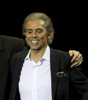 Jairo at the Tango Dance World Championship 2011, Buenos Aires. (Foto: Estrella Herrera)